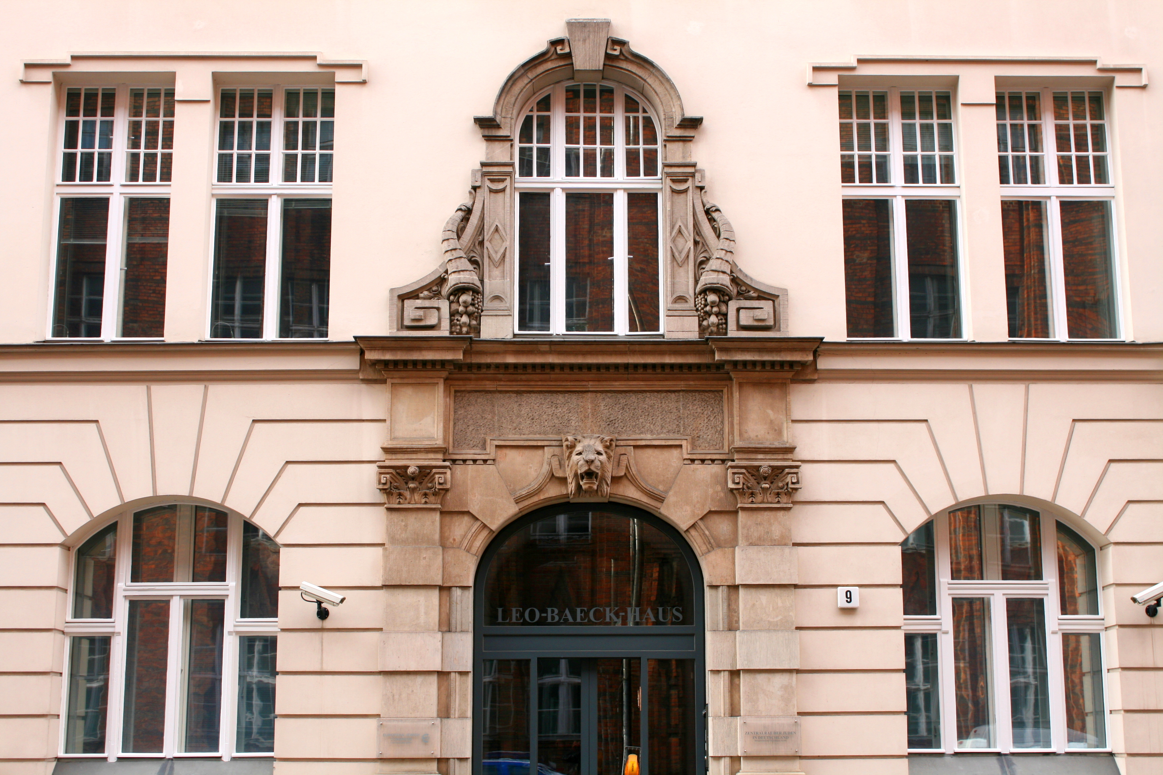 Facade of the Leo-Baeck-Haus in Berlin, Headquarters of the "Zentralrat der Juden in Deutschland"